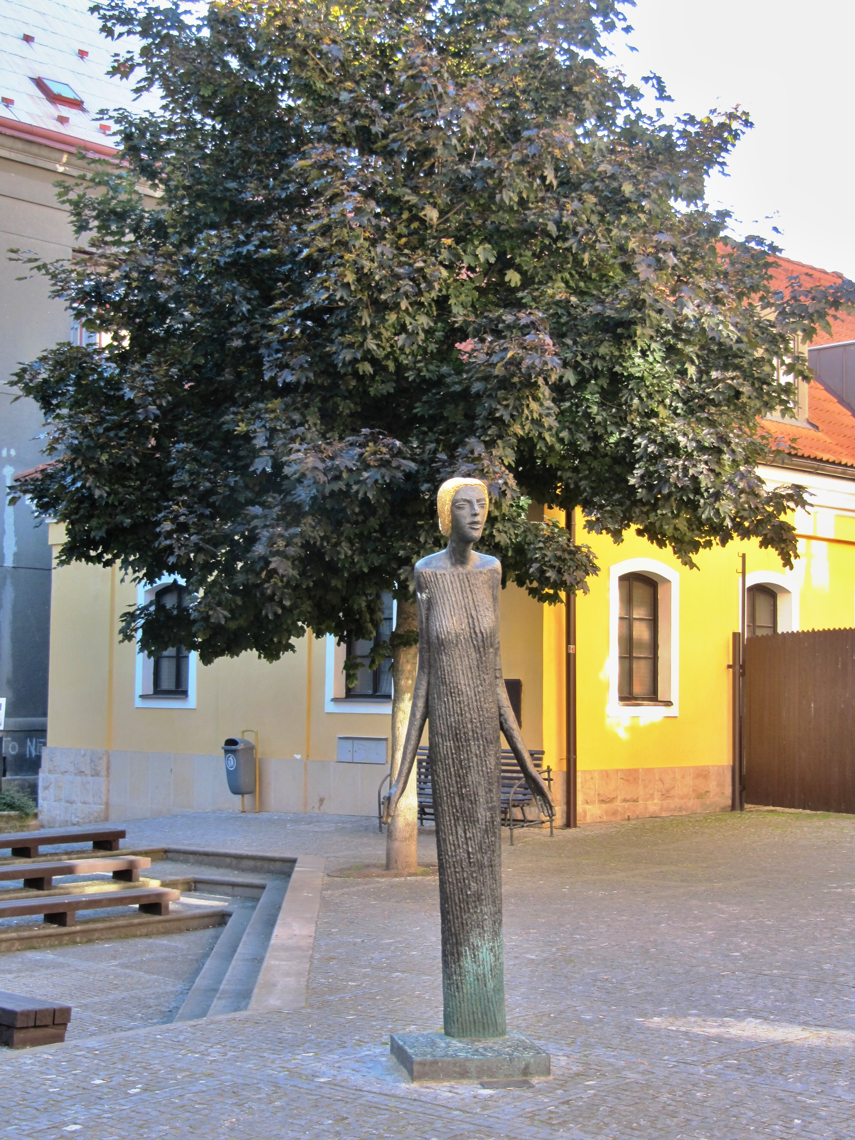 Hradec Králové, Czech Republic.